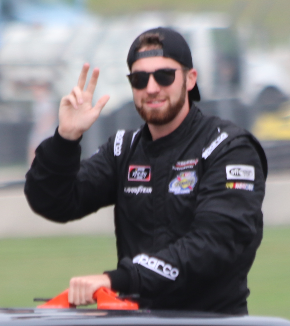 Brian Henderson waves to fans during drivers introductions at Road America in 2018